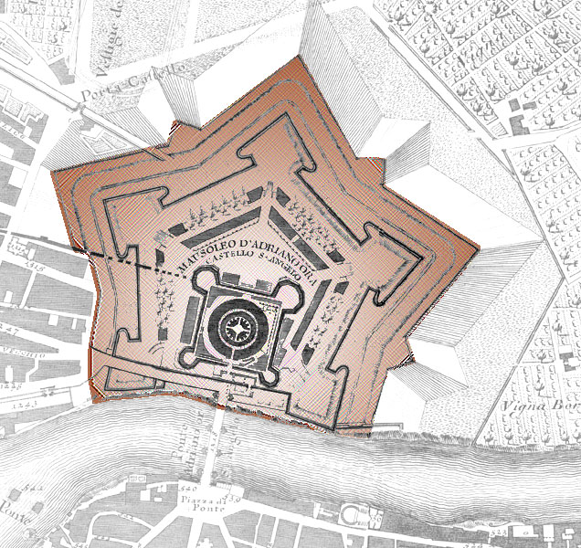 Edit 4. I award you this architecture star for your many wonderful articles on, and photos of, Frank Lloyd Wright buildings. LaÃ¯ka 14:03, 13 June 2007 (UTC). For your unrelenting turnout of the highest quality featured articles relating to architecture I award you the first Architecture wikiproject barnstar. This award was introduced by the WikiProject Architecture on 14 November 2006. --Mcginnly / Natter 20:54, 14 November 2006 (UTC).